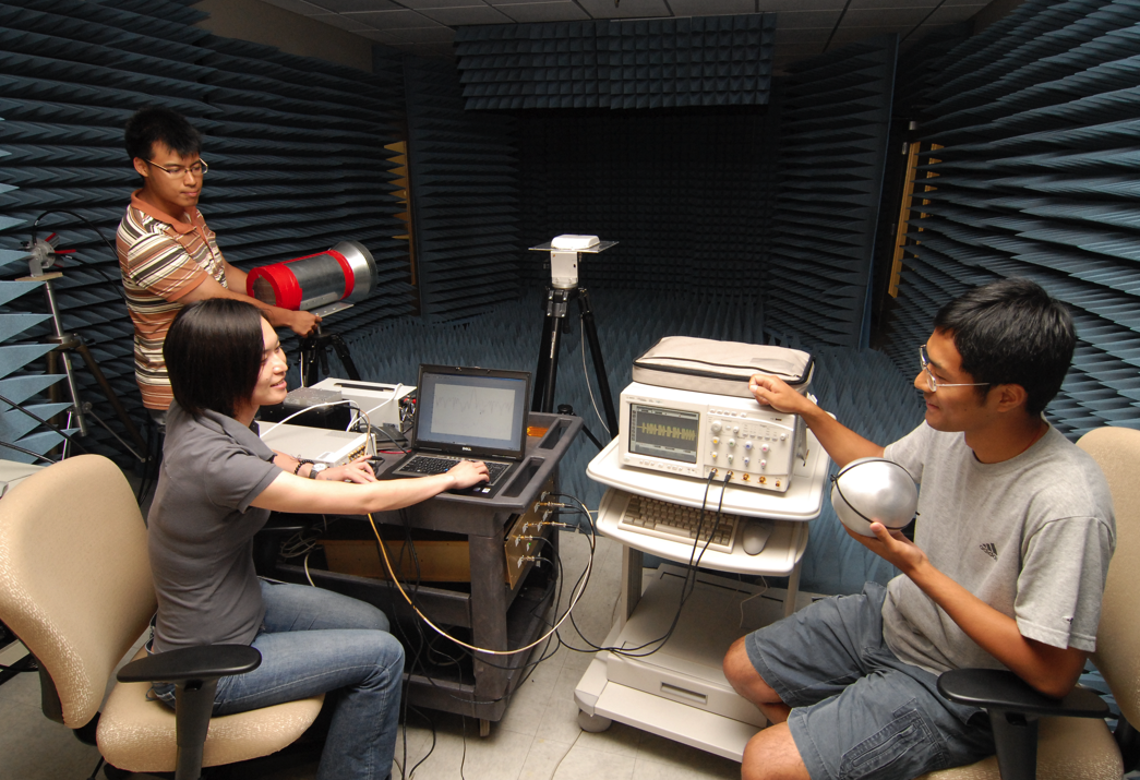 ElectroMagnetics & Microphysics Lab